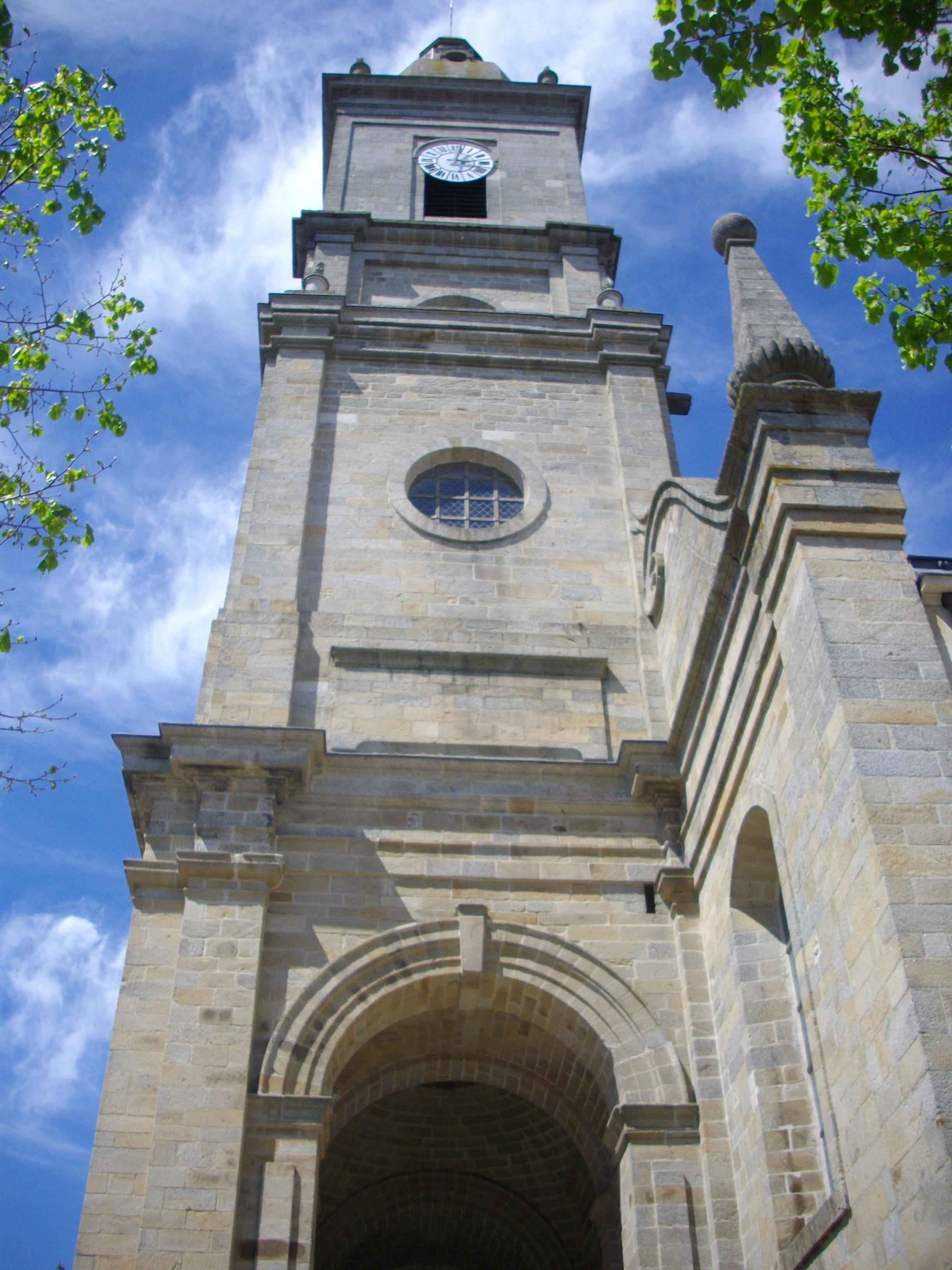 Saint Padarn church of Vannes (Morbihan, France), porch tower .